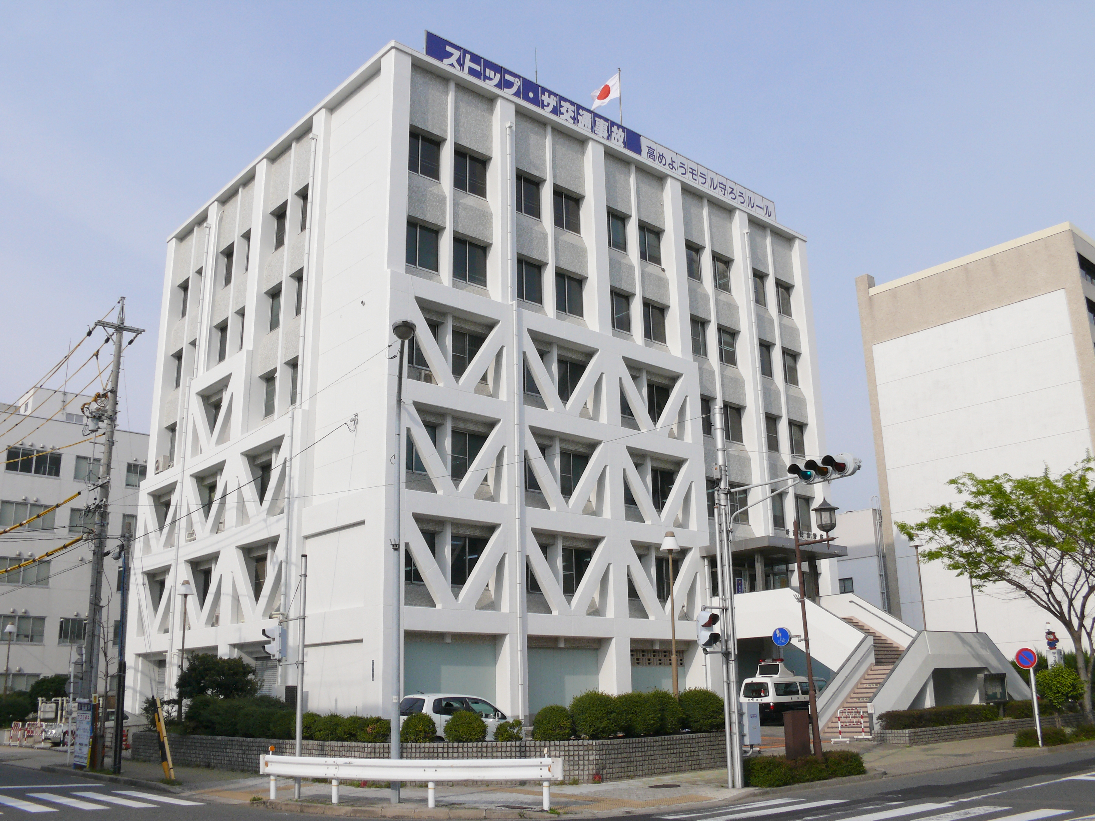 Minato Police Station of Nagoya City. It is in front of a SEGA World Garden wharf.